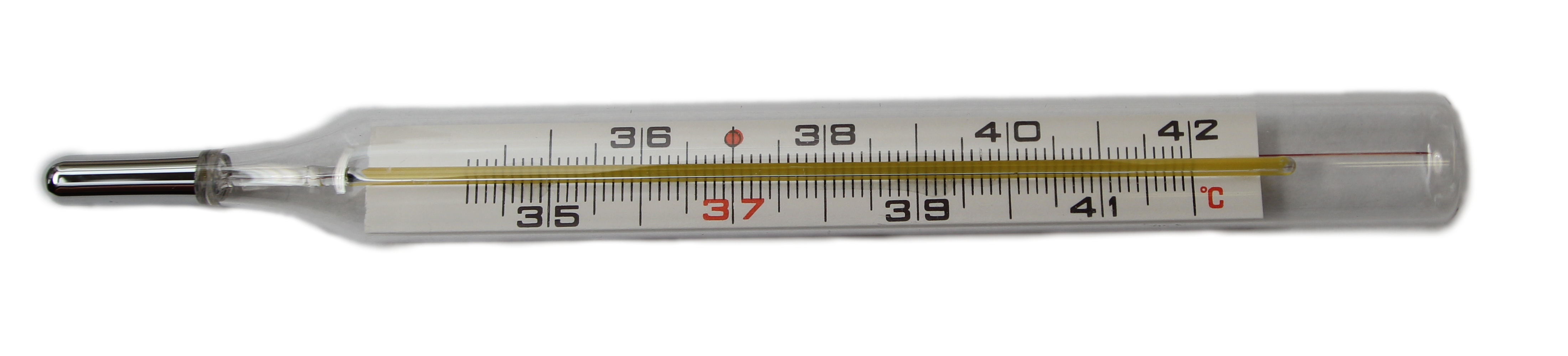 Eriam thermometer.